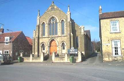 Methodist Church, Nafferton, East Riding of Yorkshire, England.This Church is central to the grid square it occupies.